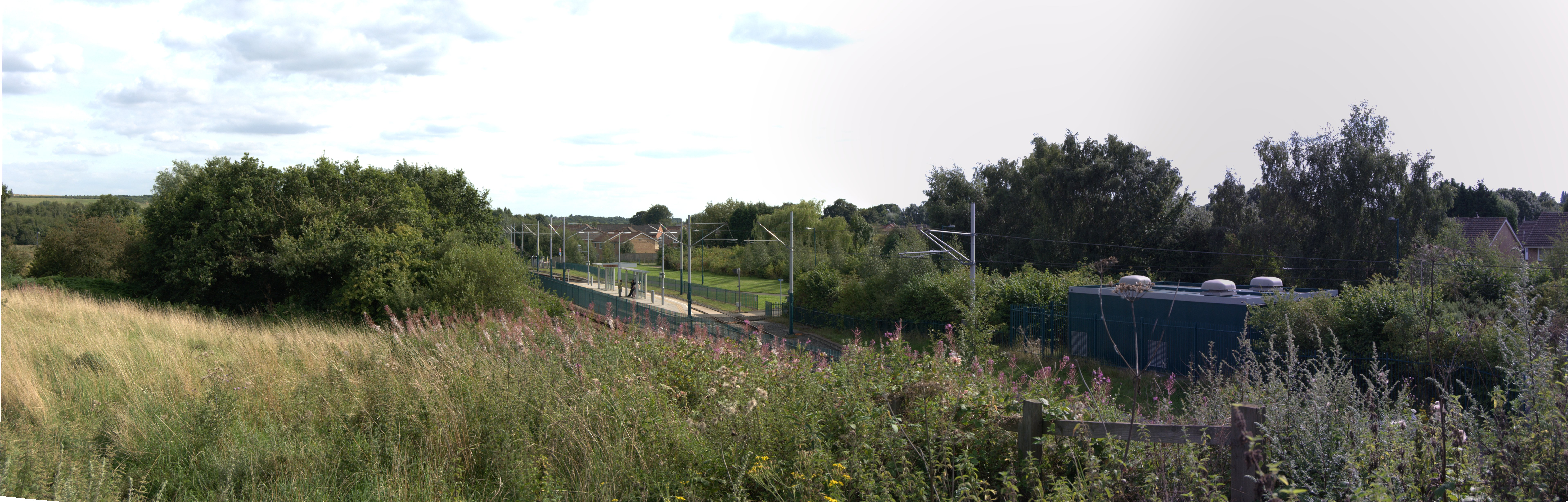 Panorama made using HUGIN of Butlers Hill tramstop on the Nottingham Express Transit system, taken from the bridge linking the Butlers Hill estate to the Mill Lakes, part of Bestwood Country Park.